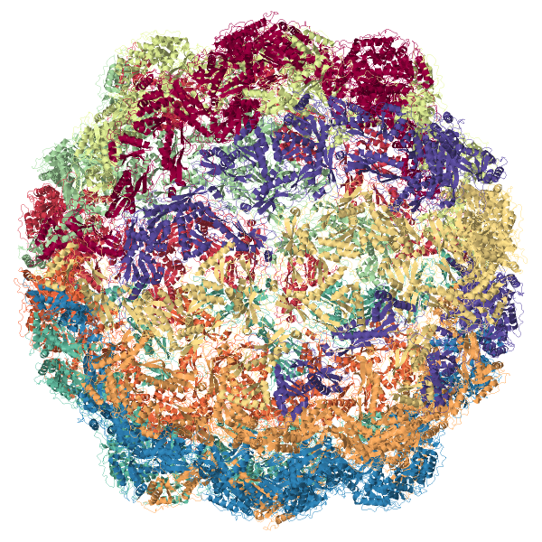 EM structure of Myxococcus xanthus encpasulin protein (EncA). Data available at